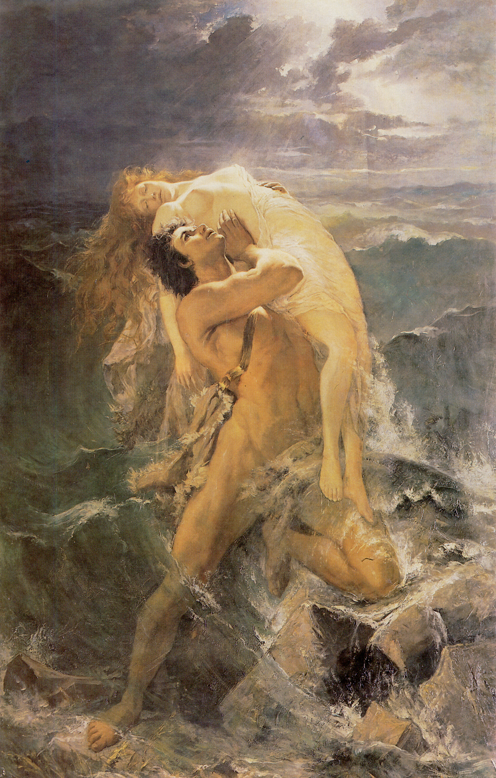 The FloodAlternative title(s): Deucalion holding aloft his wife